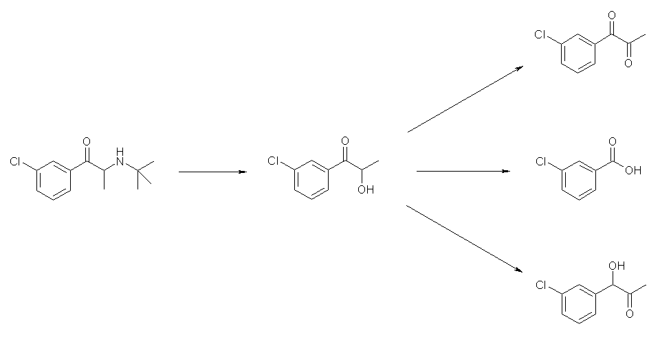 Hydrolysis of Bupropion